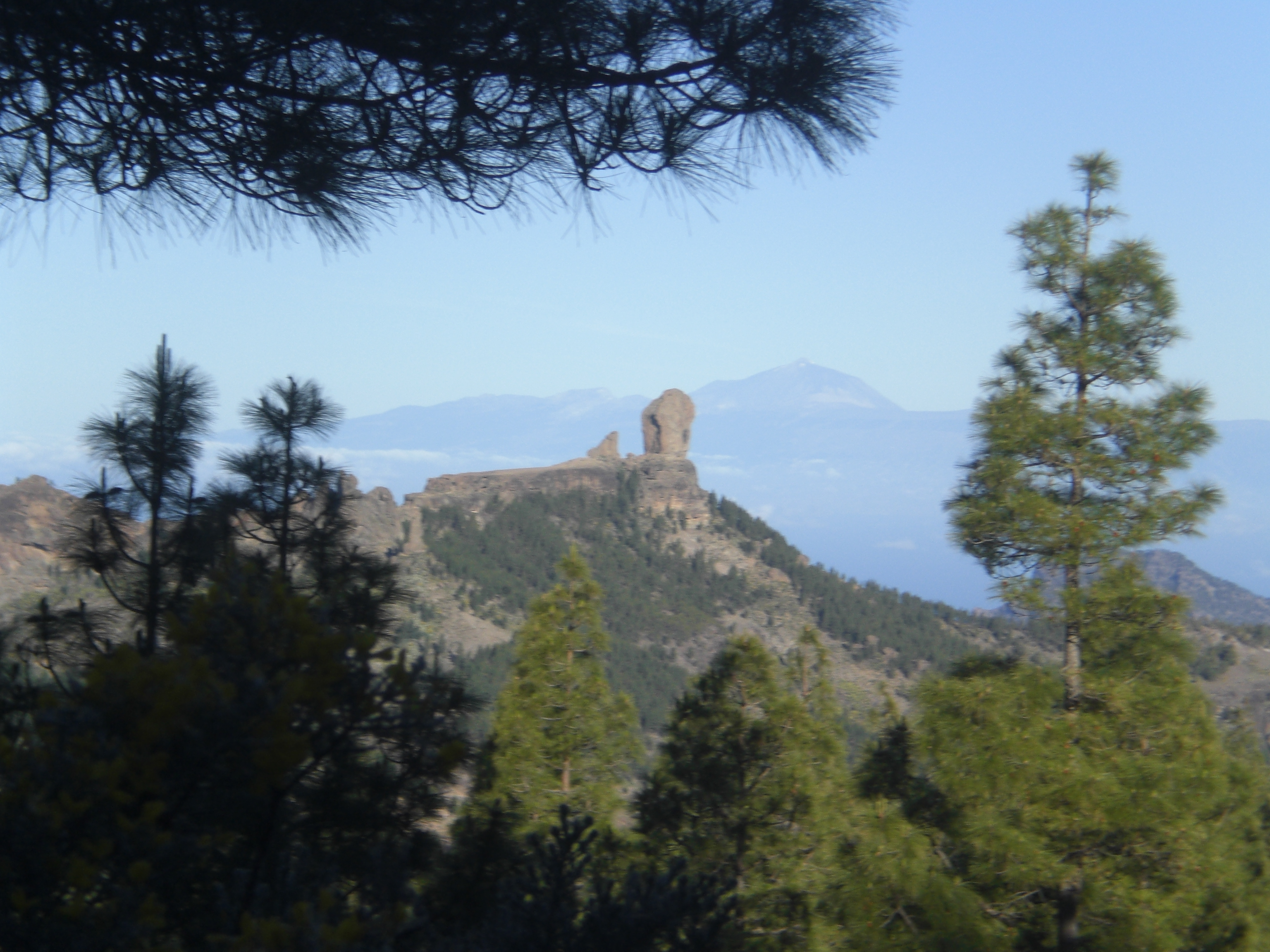 Roque Nublo, Gran Canaria.